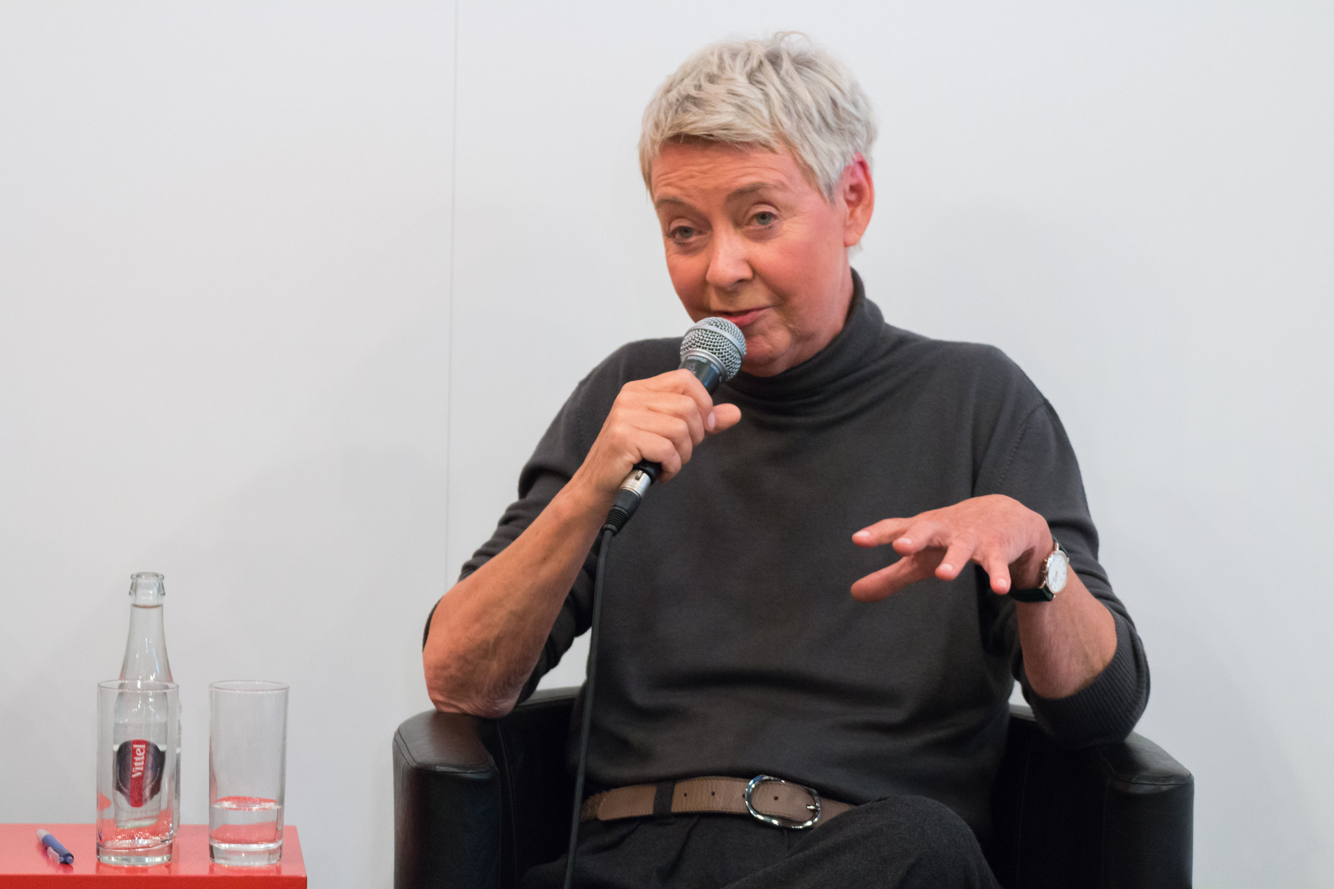 Journalist and writer Birgit Lahann on the Frankfurt Book Fair 2014